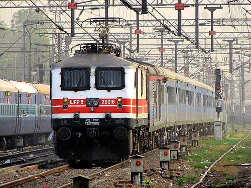 an indian train- Bhopal Shatabdi rushes off to New Delhi at 100mph